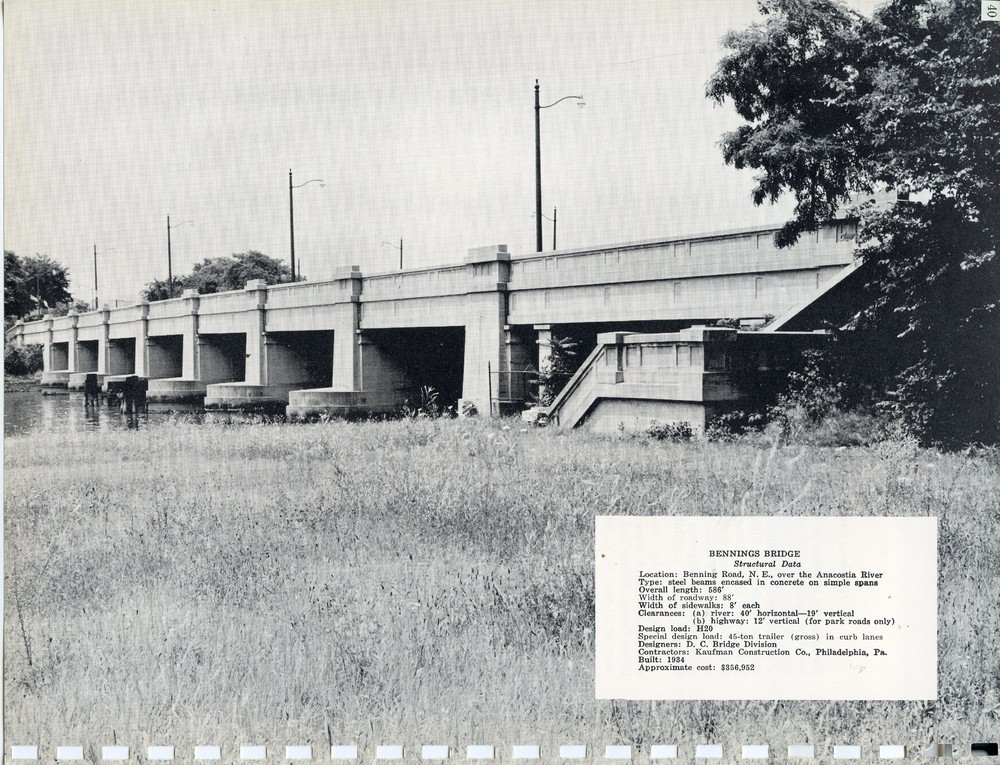 View of the Benning Road Bridge, which was replaced in 2004 by the Ethel Kennedy Bridge. A structure has spanned this area of the Anacostia since the beginning of the 19th century.